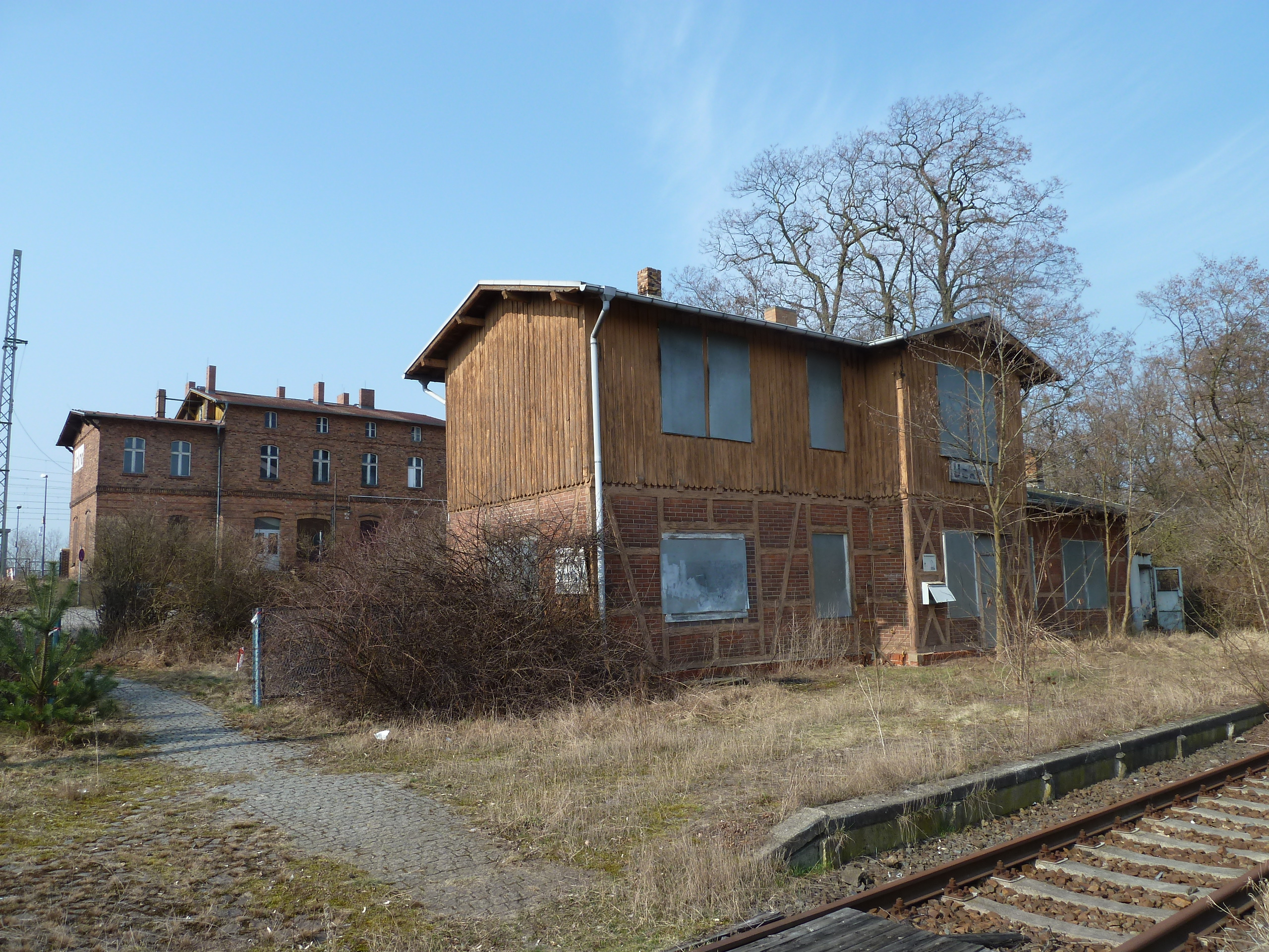 Train station Uckro (today Luckau-Uckro), station building of the Niederlausitzer Eisenbahn, cultural heritage